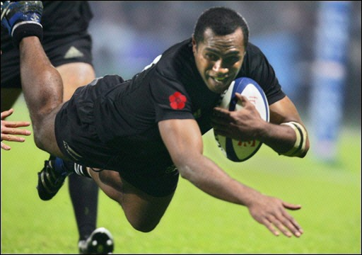 Sivivatu